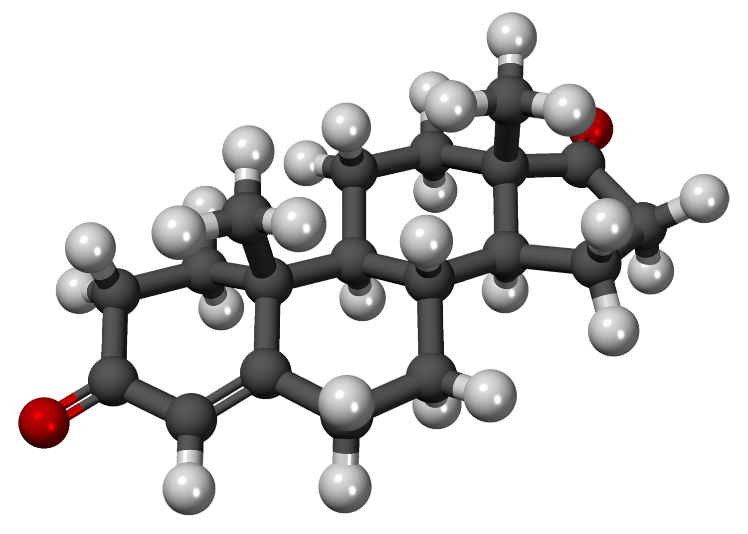 Ball-and-stick model of the Androstenedione molecule C19H26O2. Model constructed using ACD/ChemSketch and Accelrys DS Visualizer.